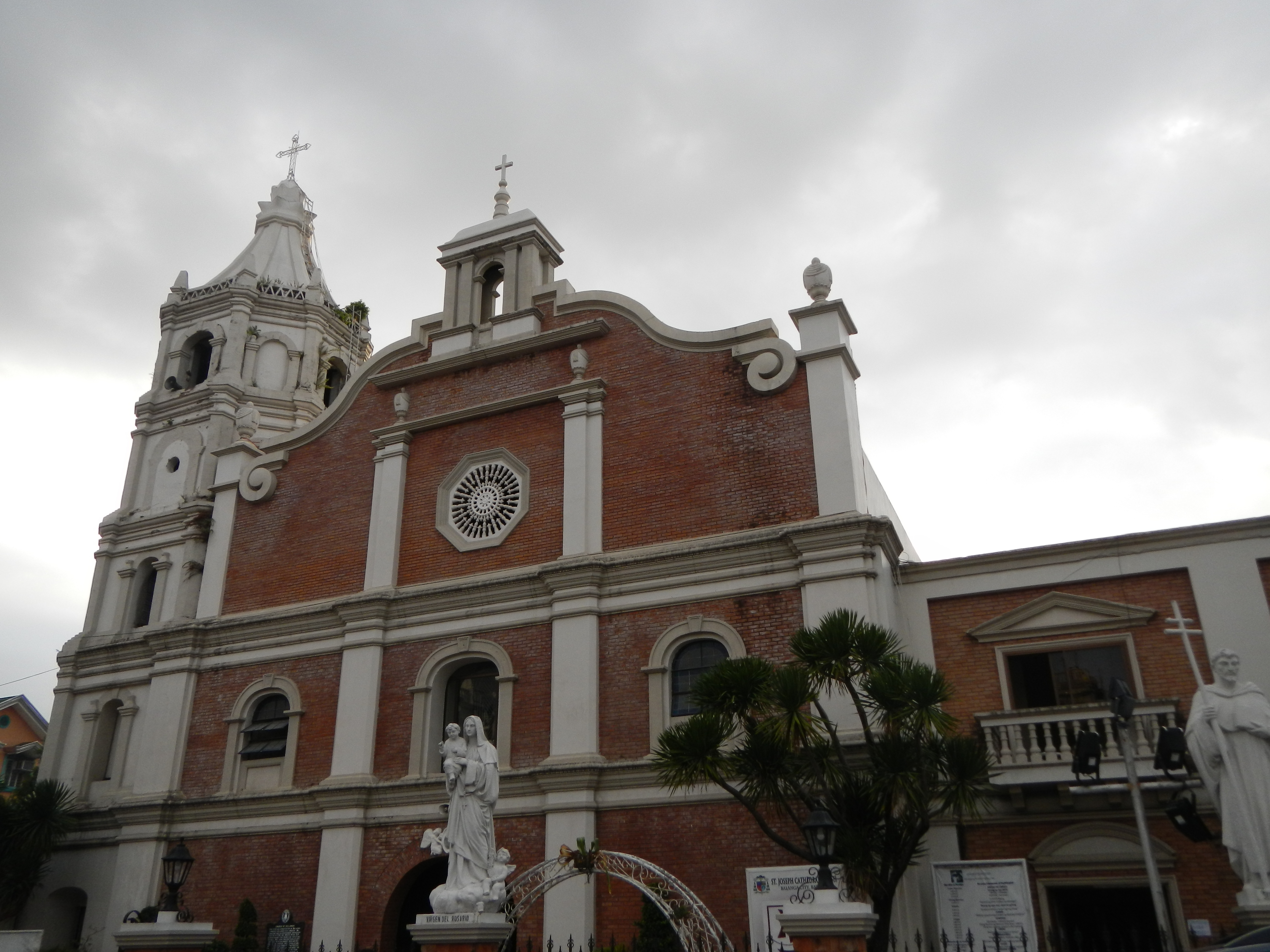 [1]Balanga Cathedral, formally known as St. Joseph Cathedral in Balanga City, Bataan, is the seat of the Diocese of Balanga which comprises entire of the civil province of Bataan. The current rector and parish priest of the cathedral is Fr. Abraham Pantig.[2] [3] Balanga City, Bataan[4][5][6]